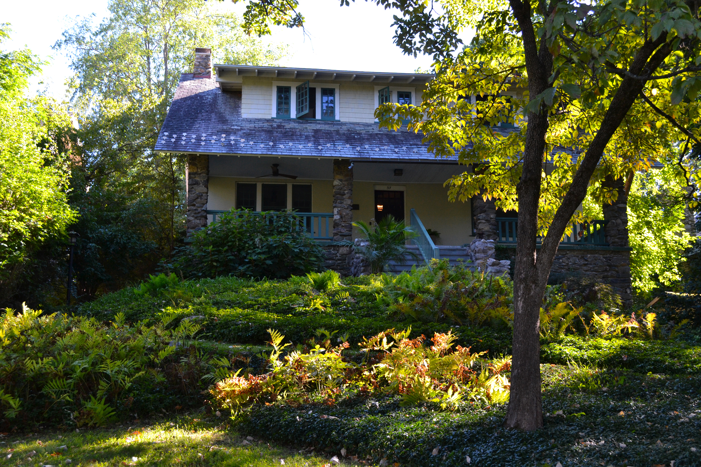 Moore House Moore House, 37 Adriance Ave, Poughkeepsie, NY. Northern (front) facade